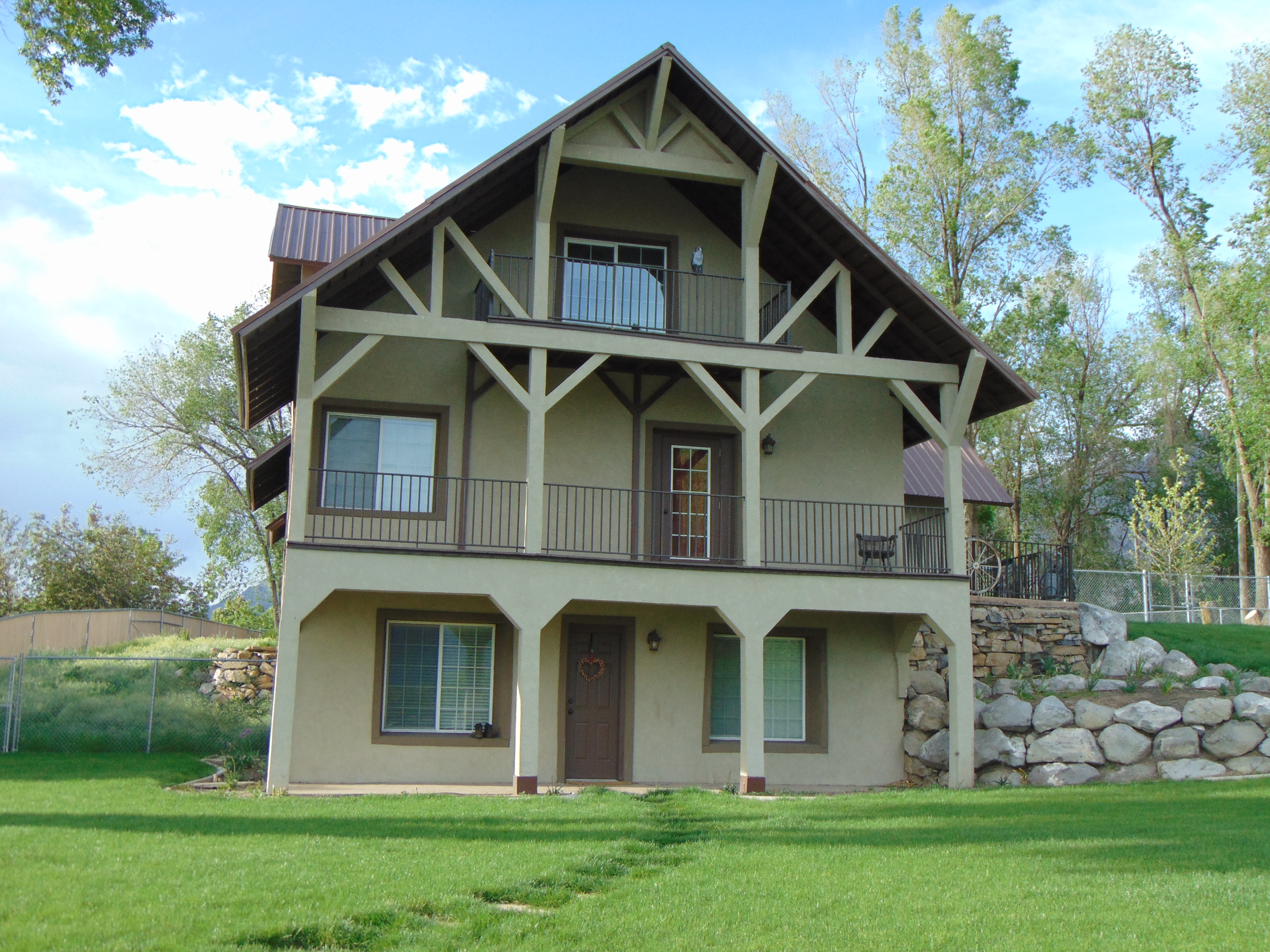 Looking north (from a point a bit east of Utah State Route 51) at the John Hafen House in Springville, Utah, May 2016